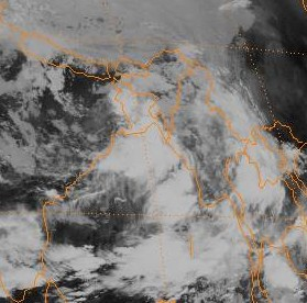 National Climatic Data Center, Asheville, NC